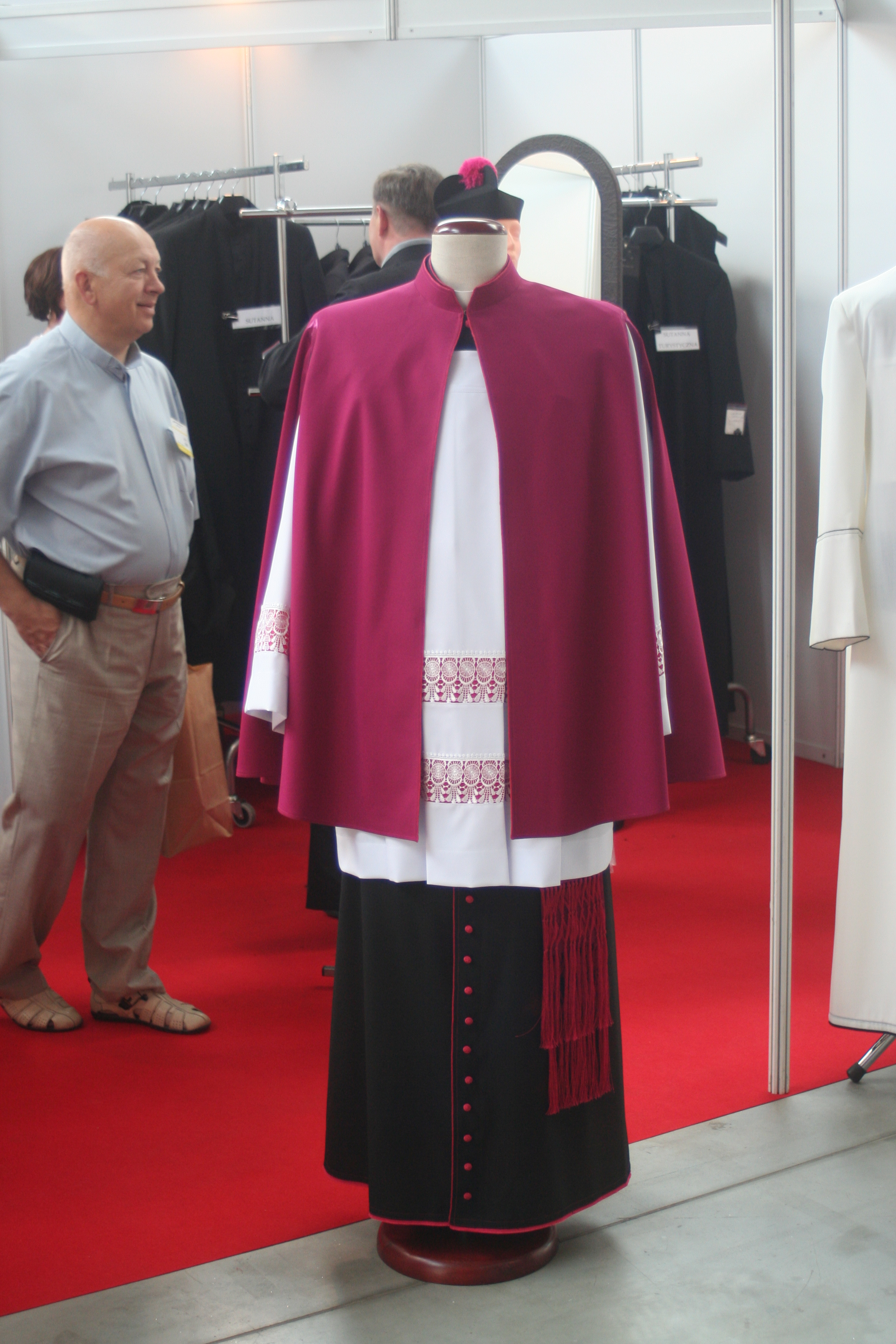 Choir dress Higher Prelates of the Roman Curia and Protonotary Apostolic de numero